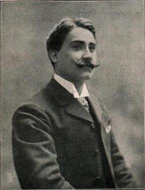 Portrait of French tenor Charles Rousselière on the cover of L'Illustration (Vol. 61, 1904).